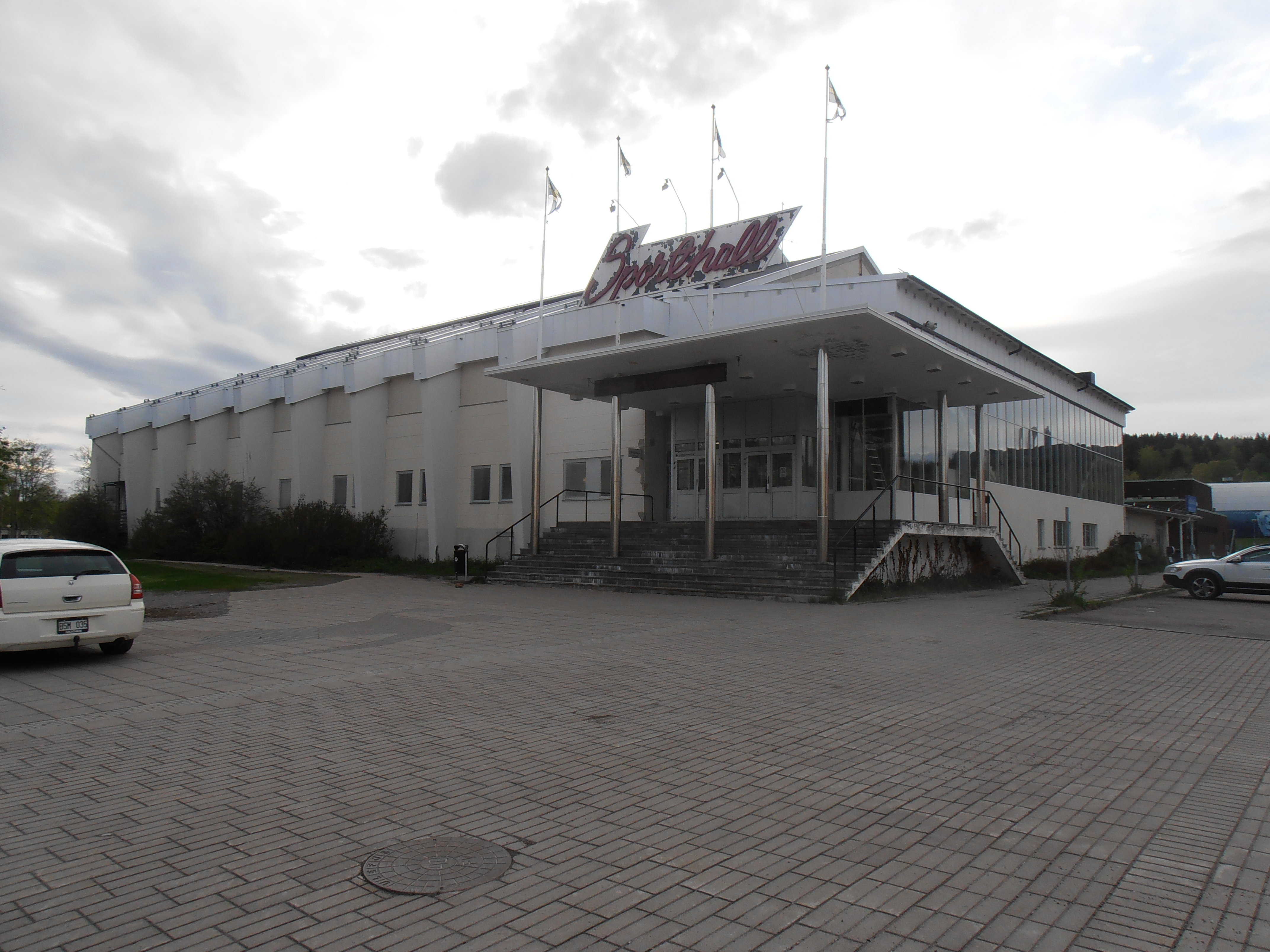 The gymnasium in Malmberget